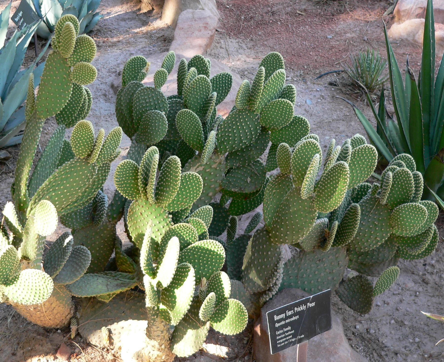 Photo of Opuntia microdasys at the Springs Preserve garden in Las Vegas, Nevada